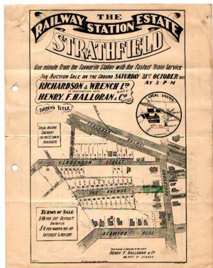 The Railway Station Estate, Strathfield, auction pamphlet, October 31st 1903.